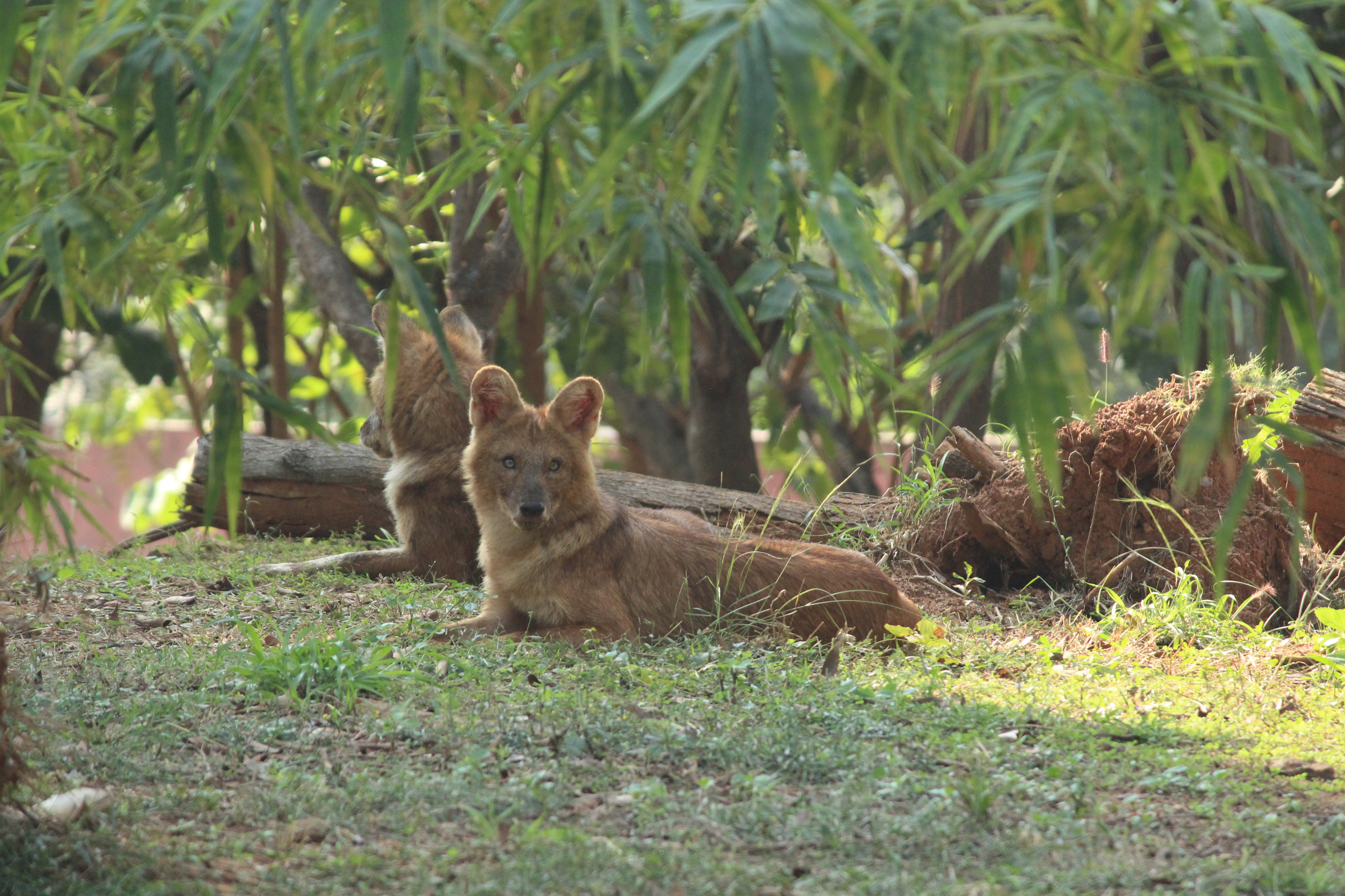 The Indian Wild Dog is a carnivore whose 'Puppy Dog Eyes' shouts danger instead of cuteness. - At the Indira Gandhi Zoological Park, Visakhapatnam